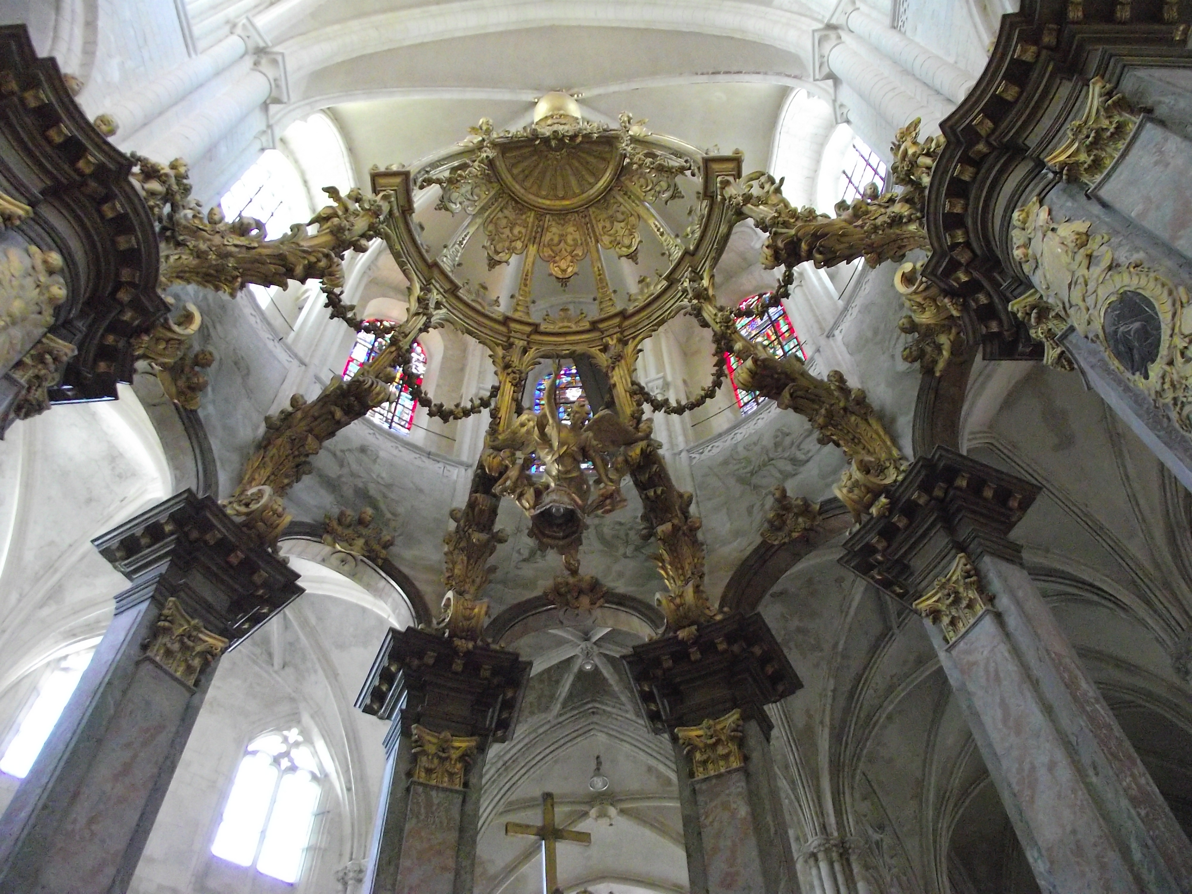 Fécamp, Trinity Abbey, XII-XIII Century, Ciborium